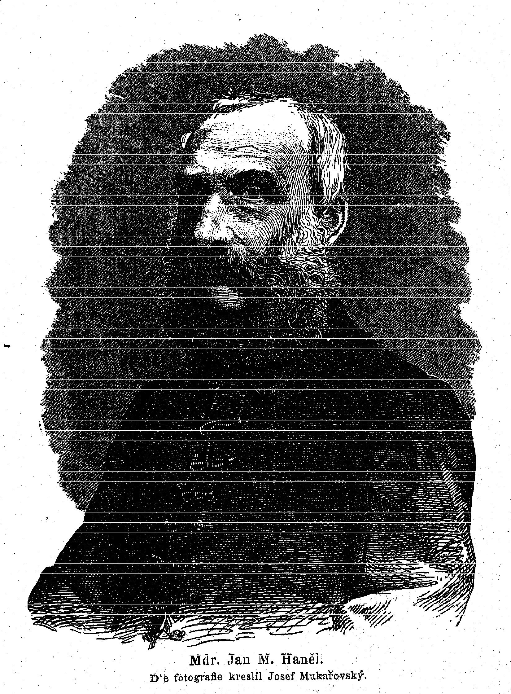 Portrait of Jan Miloslav Haněl (1808 - 1883), Czech physician and a representative of ethnic Czechs in Třebíč